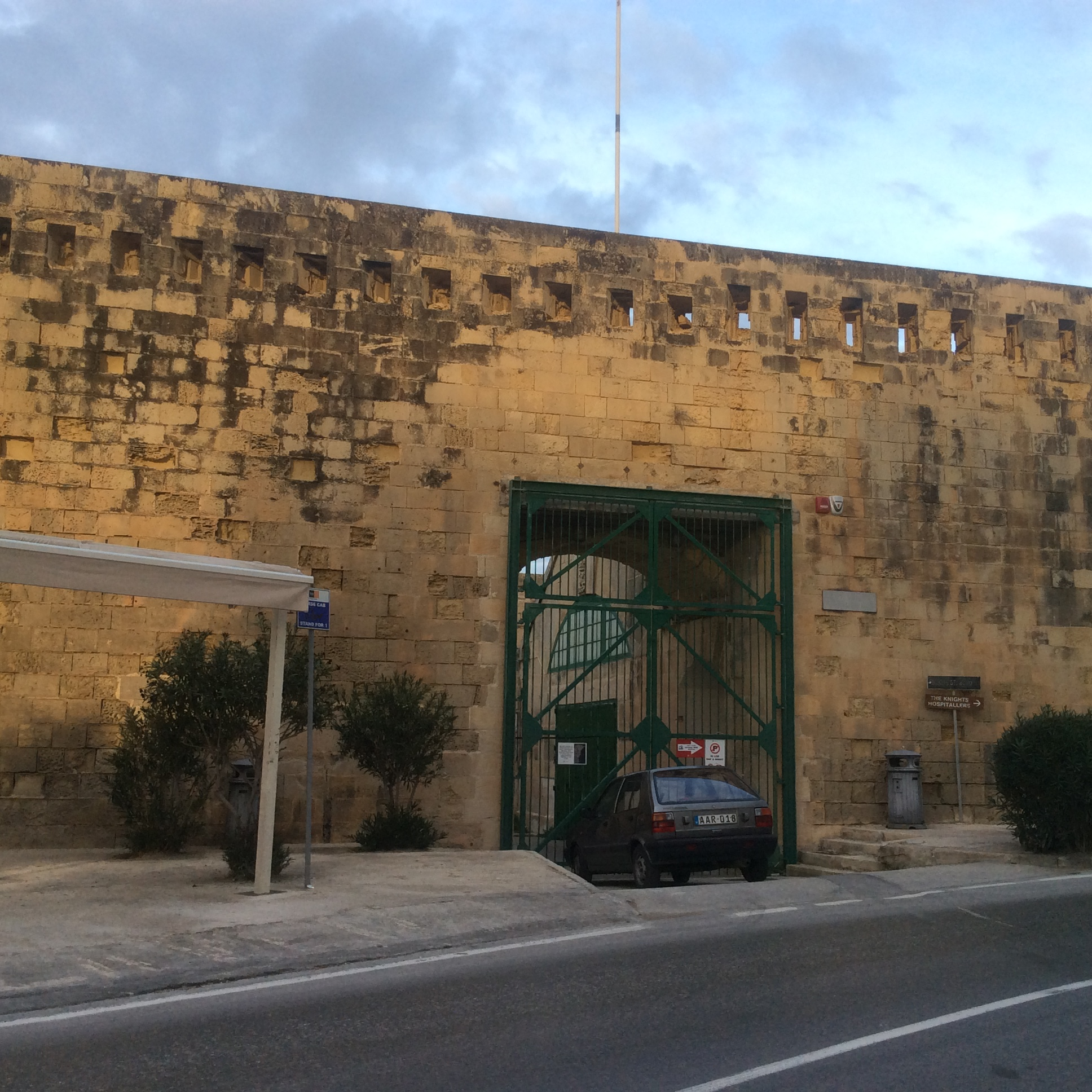 National War Museum entrance